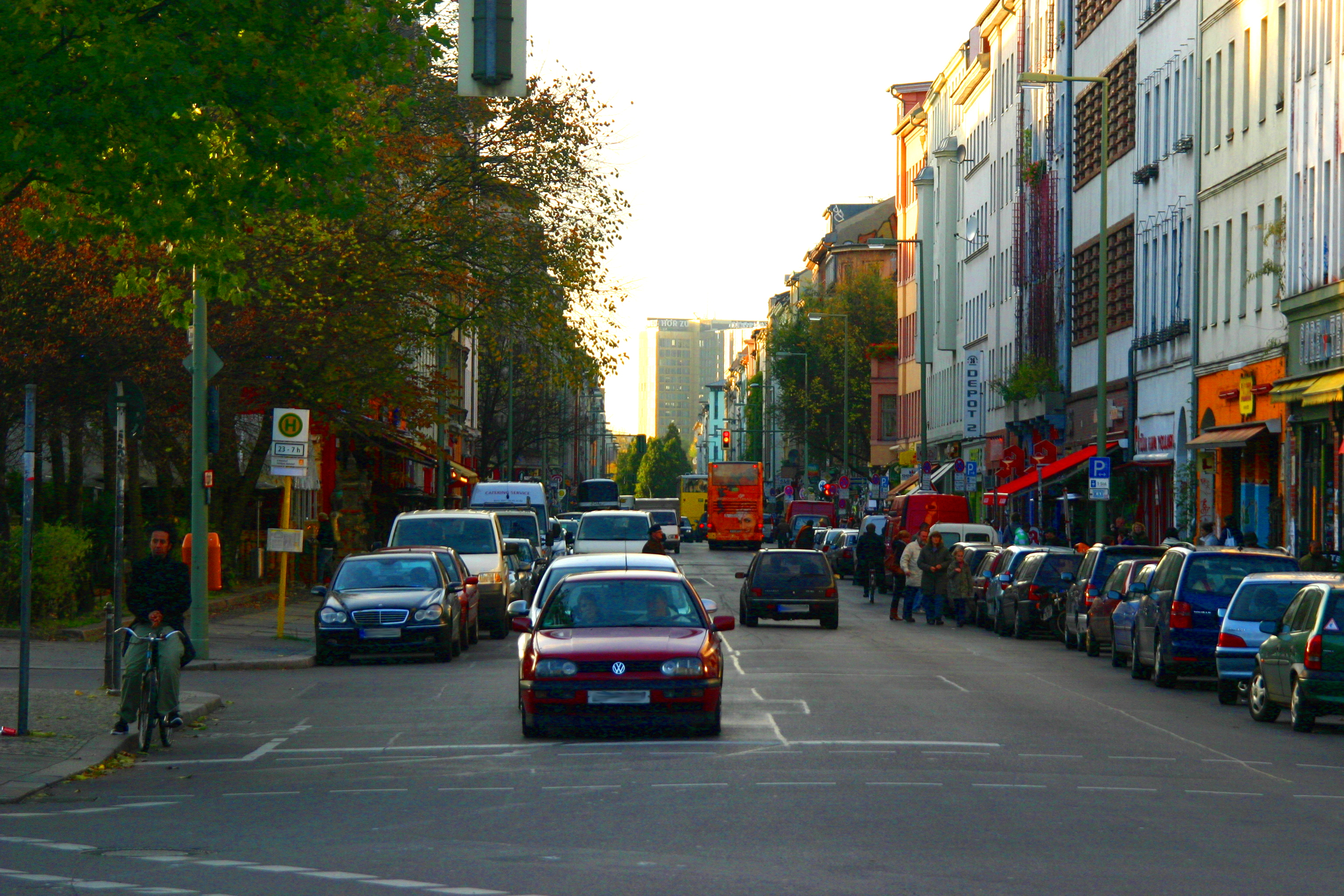 Oranienstraße in Berlin-Kreuzberg